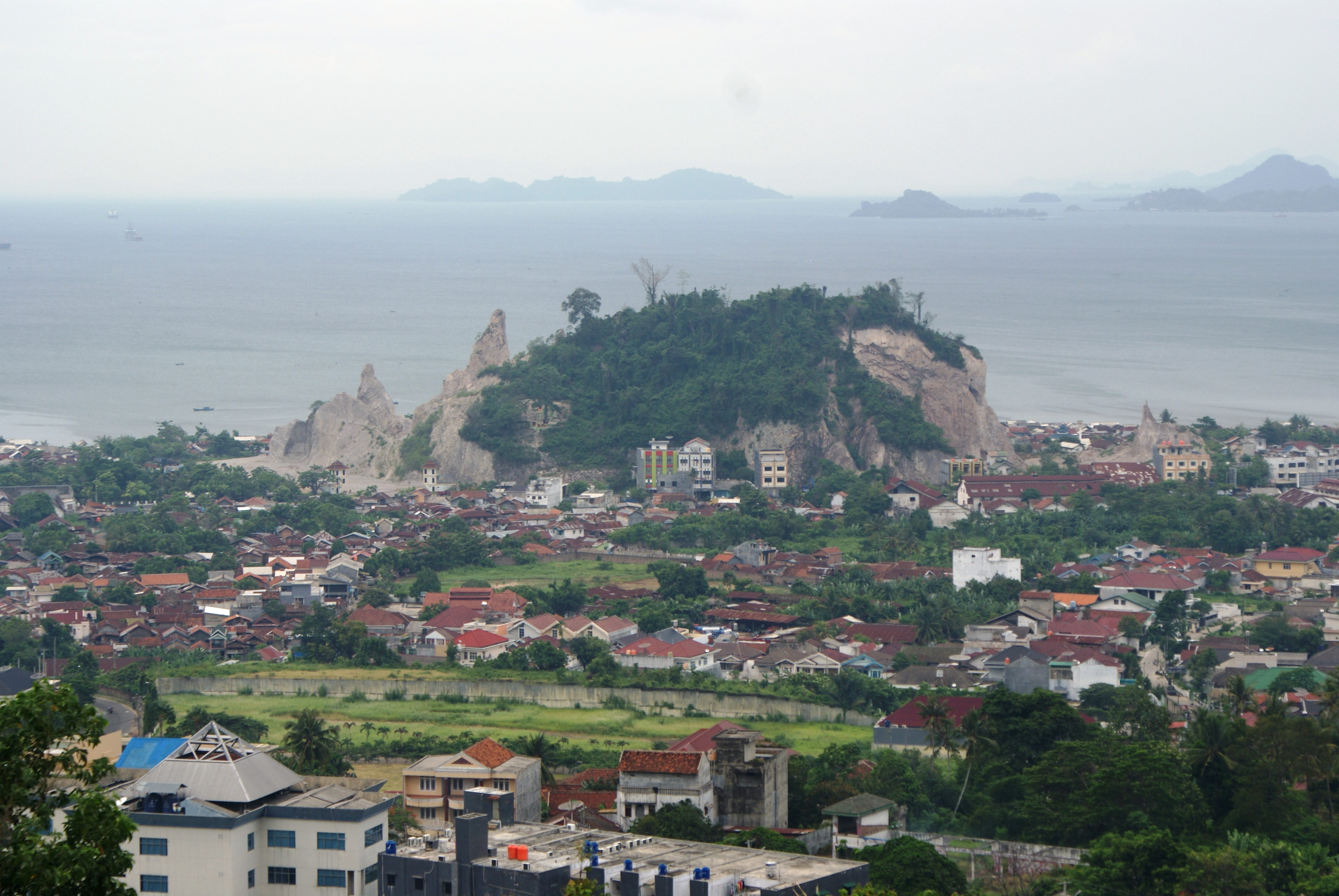 Bandar Lampung, the capital city of Lampung province, Indonesia.